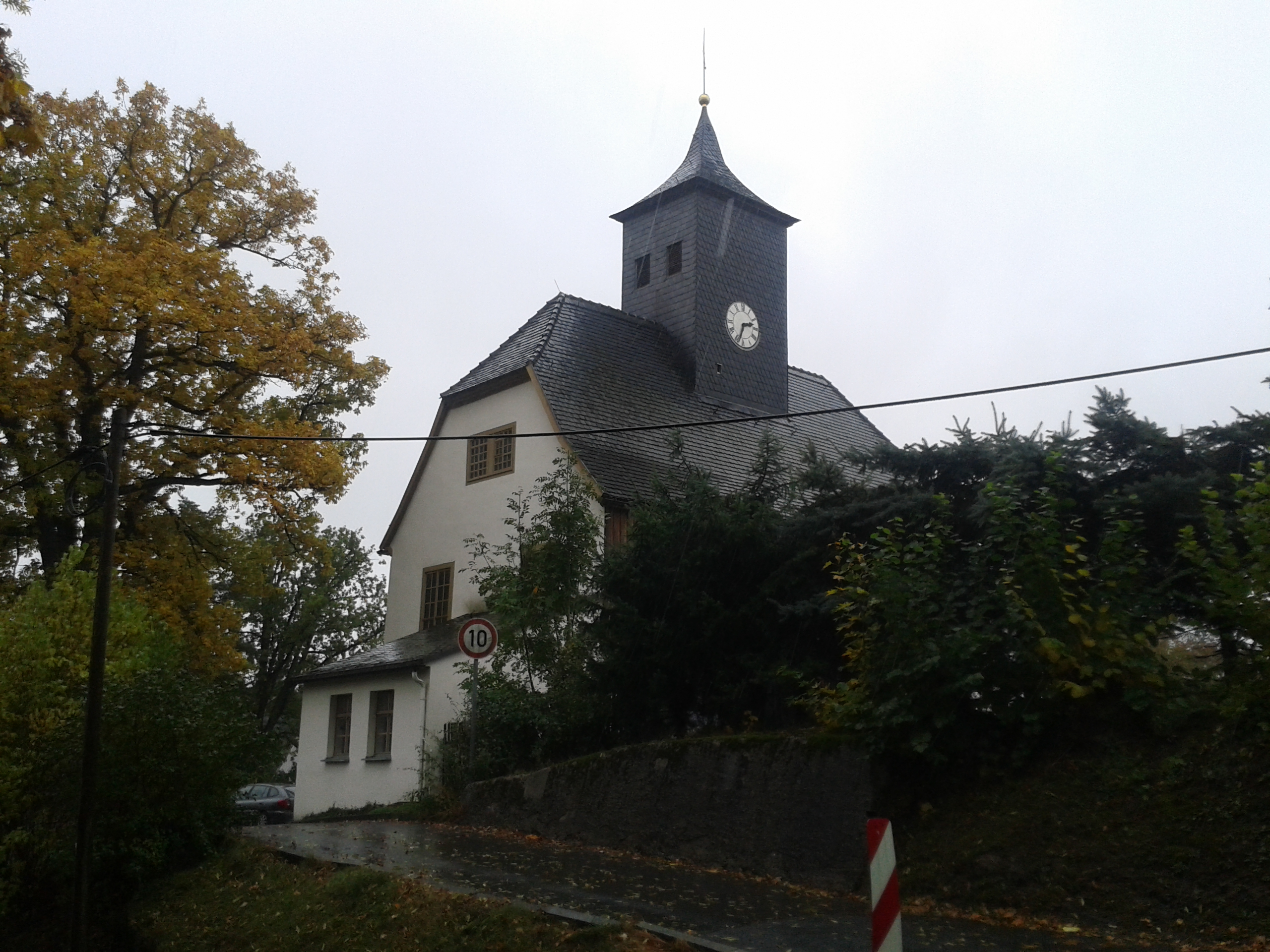 Reichenbach(Grossschirma) Church